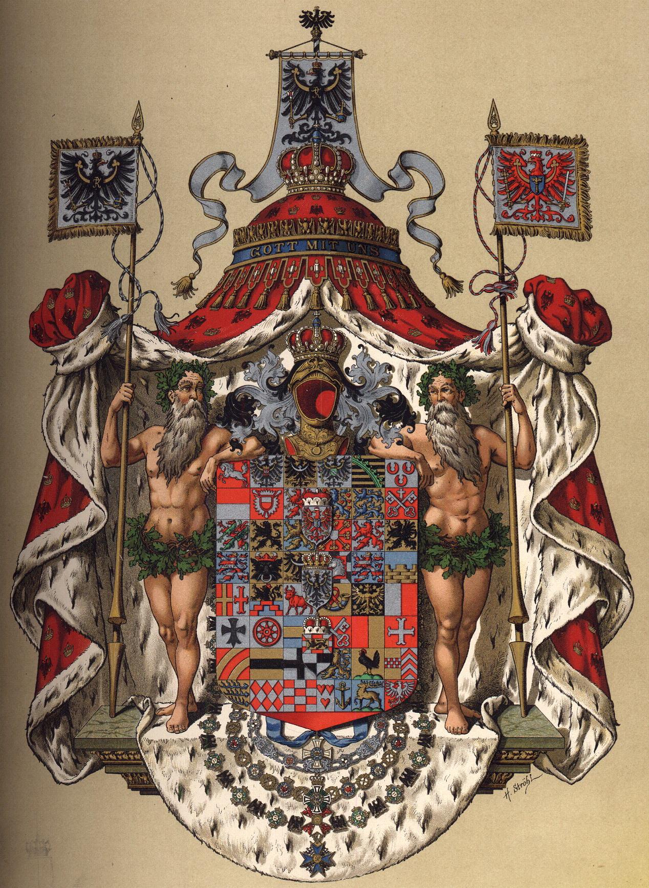 The grand arms of Prussia at the end of the 19th century